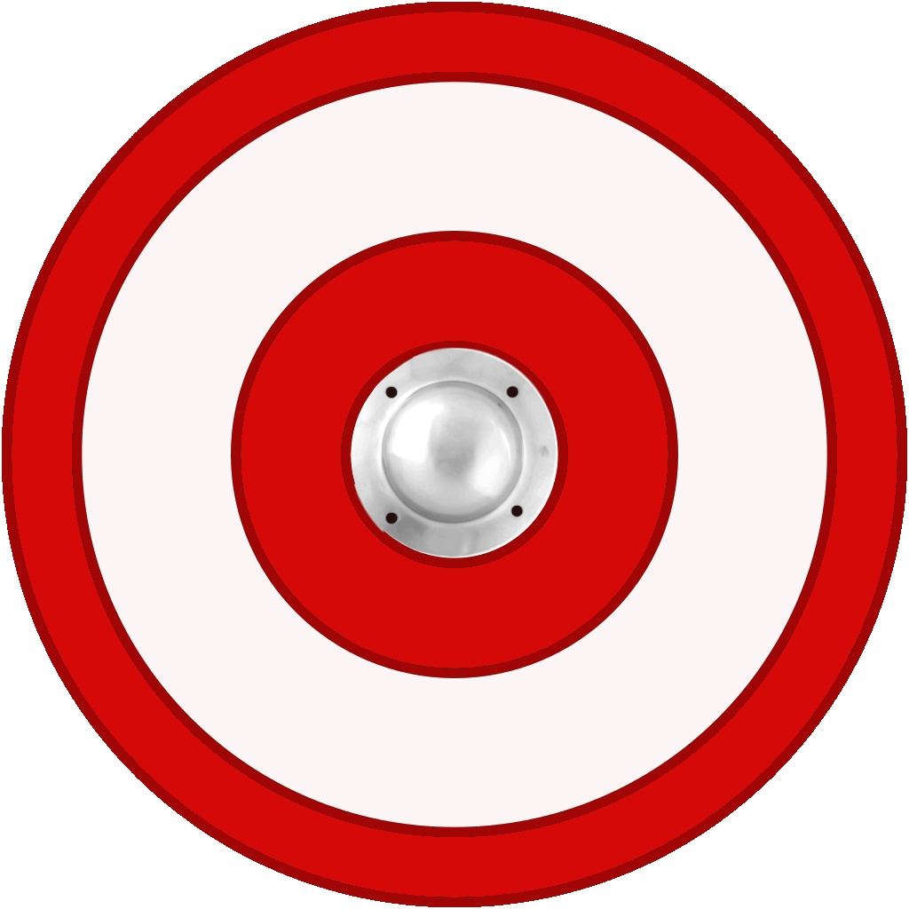 Shield pattern o.t. Heruli seniores, a auxilia palatina unit listed in the Magister Peditum's infantry roster; it is also assigned to his Italian command.